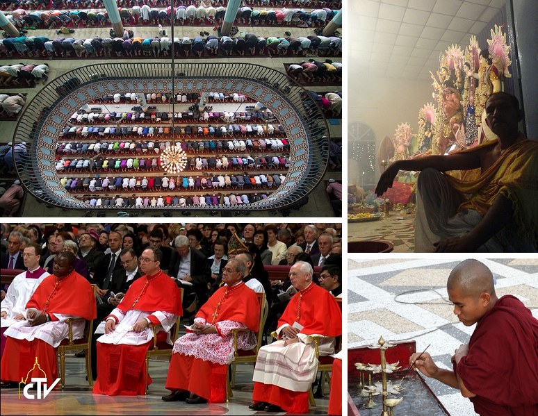 Clockwise from top left: Muslims praying in Bangladesh's national mosque; a Hindu monk in a Bangladeshi temple; a Buddhist monk at a Bangladeshi pagoda; a Bangladeshi cardinal along with other cardinals at the Vatican